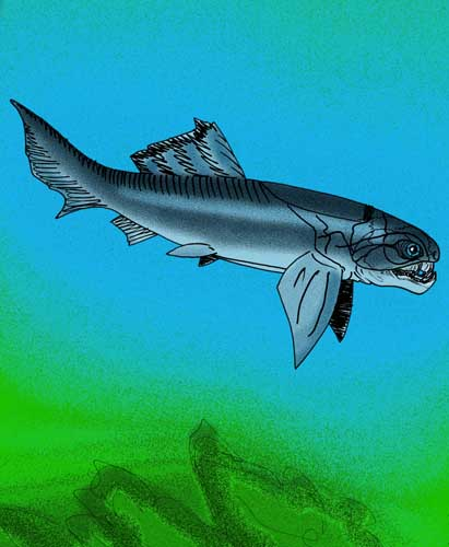 Reconstruction of the giant predatory arthrodire placoderm, Gorgonichthys clarki, of Fammenian Cleveland Shales formation of Late Devonian Ohio.